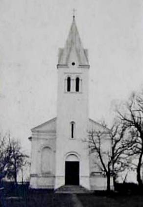 Evangelical Lutheran Church in Garliava, before WWII, Lithuania